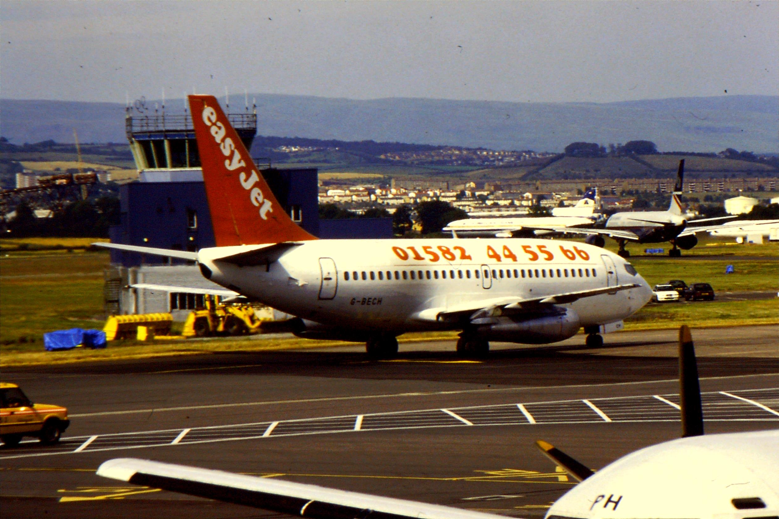 The early days of U2 - phone numbers and sheltering under someone else's AOC. All different now. Note the American Trans Air Tristar lining up to take off, followed by the hourly BA 757 shuttle to Heathrow. A BA ATP sits at the front of this picture - G-BTPH. I was waiting for my Business Air flight to MAN. EasyJet is now 20 years old.